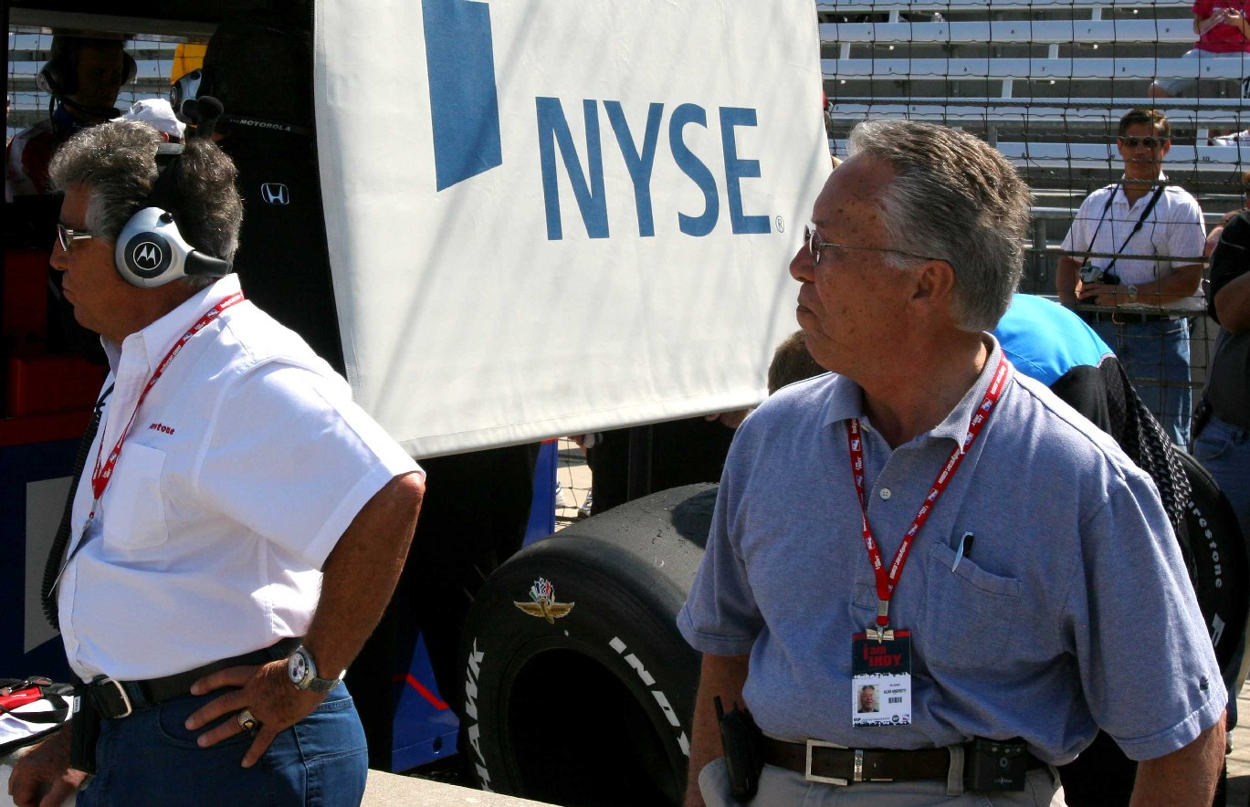 Mario and Aldo watch Team Andretti-Green on Indy Pole Day, 2007. Picture by Tim Wohlford.